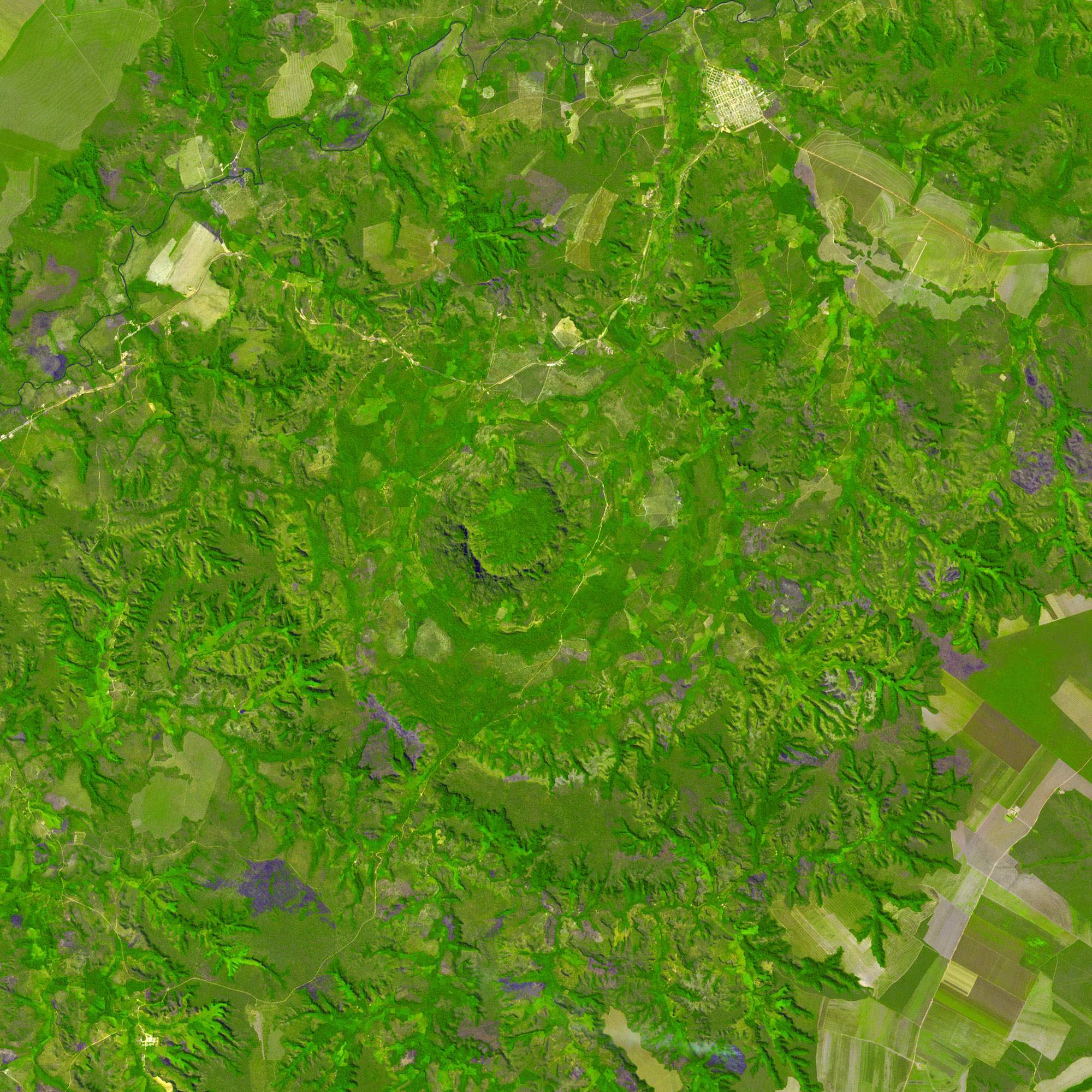 Serra da Cangalha Crater in Campos Lindos, Tocantins, Brazil